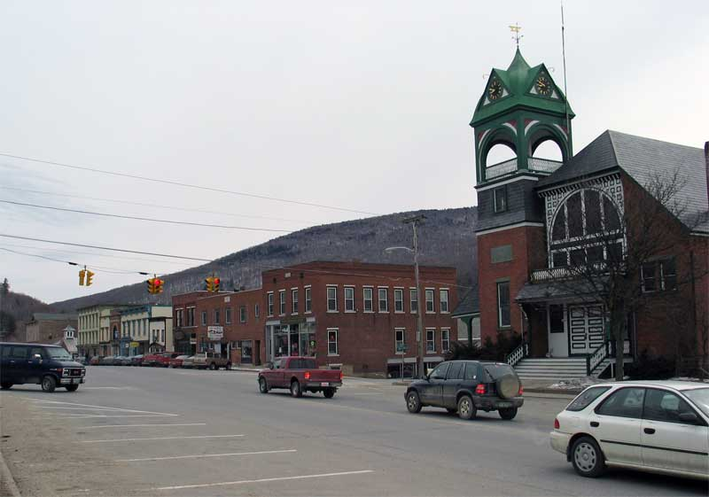 Photograph of Bristol Vermont Main Street